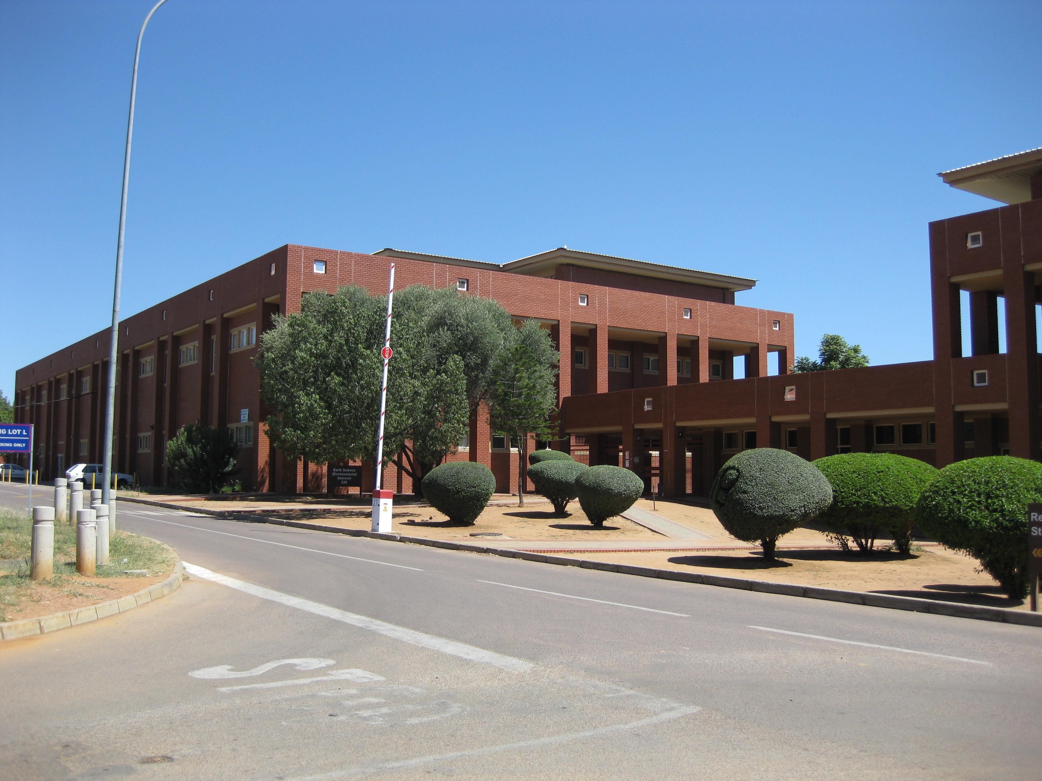 Environmental Science Building at the University of Botswana in Gaborone